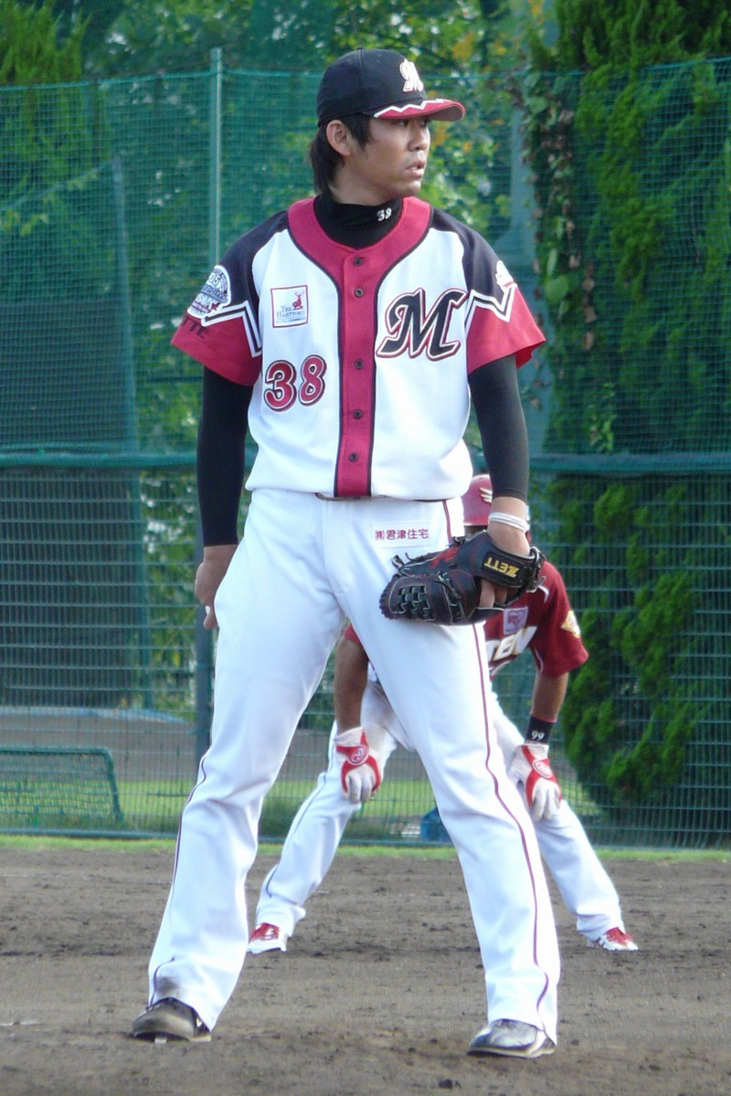 Taiki-Nakagou